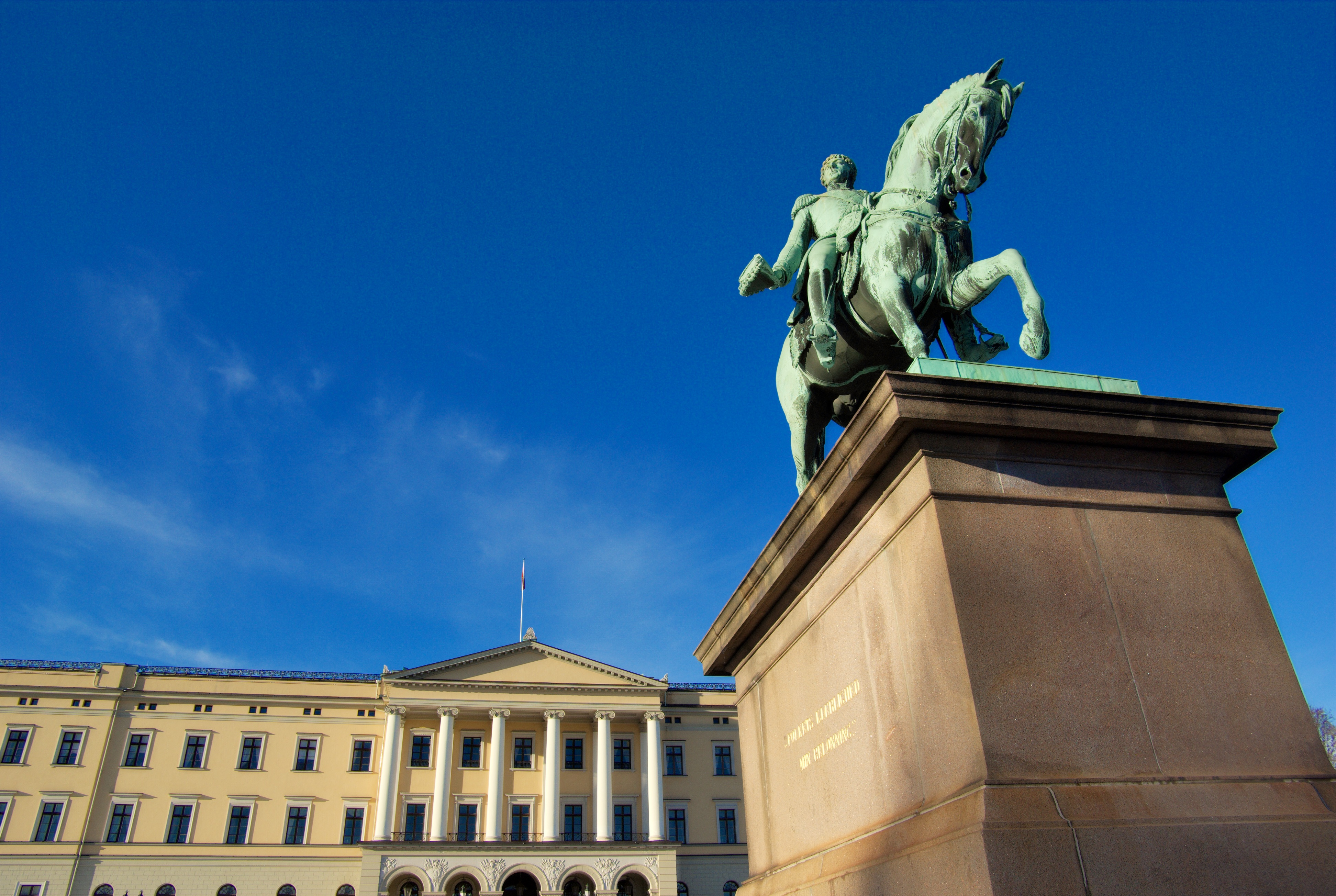 Statue of Swedish Norwegian King Karl Johan. The statue was made by Norwegian sculptor Brynjulf Bergslien (1830-1898). Royal Palace, Oslo, Norway